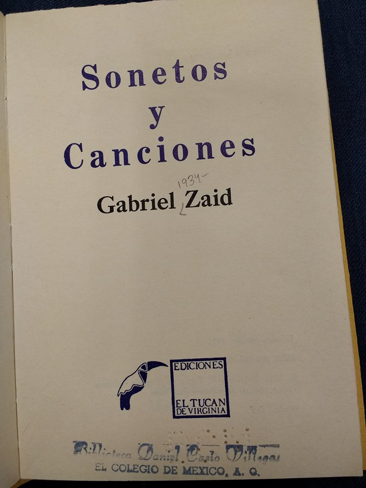 Edición príncipe de "Sonetos y canciones" de Gabriel Zaid; 1992.